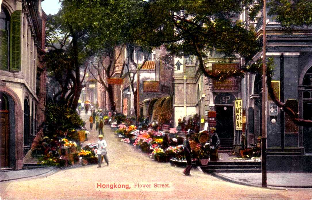 Hong Kong, Flower Street. Postcard publ. by Turco-Egyptian Tobacco Store Several sources describe this location as Wyndham Street, and the building at the right corner as the former Hong Kong Club Building, which then accomodated the Chinese YMCA.